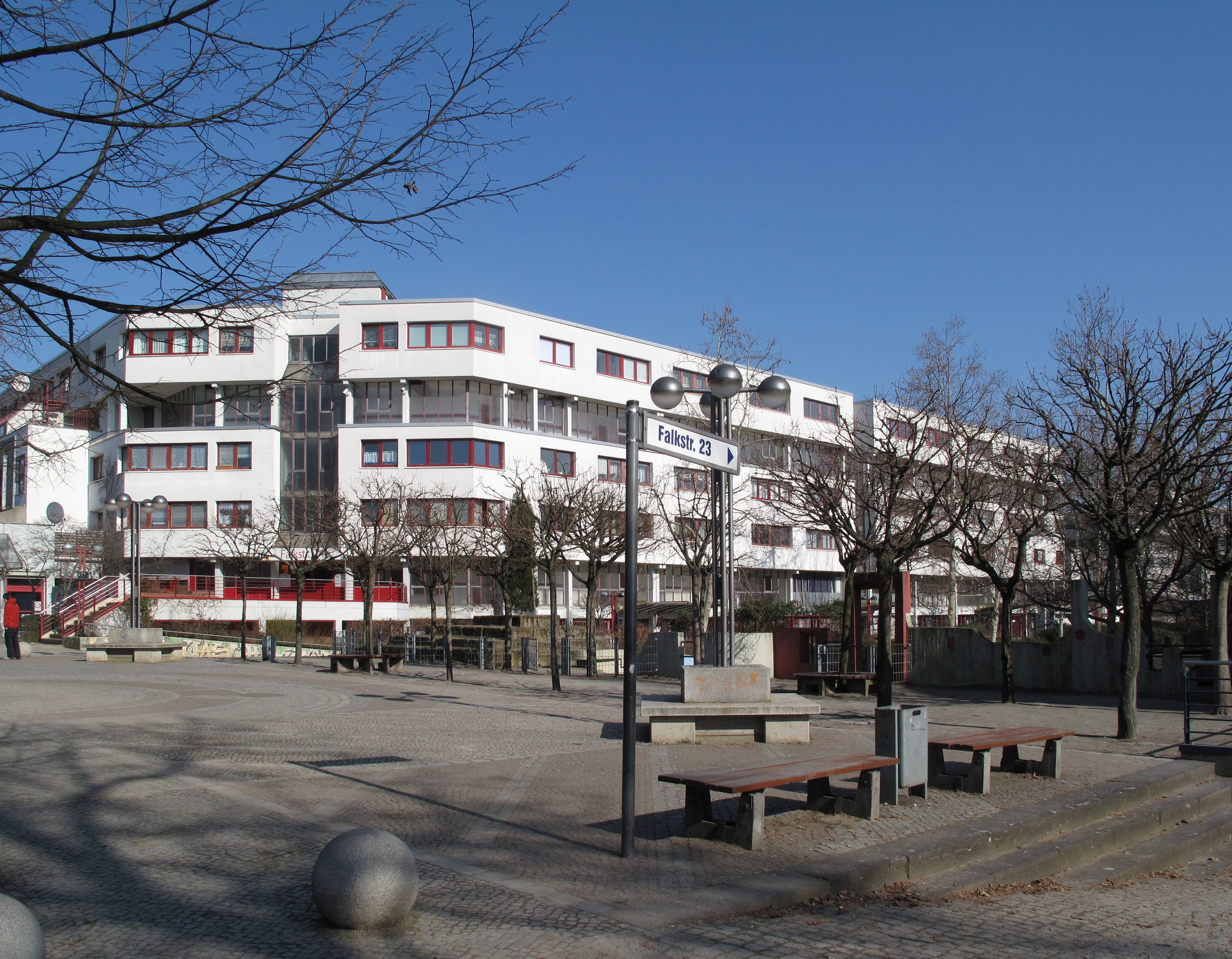 The Rollbergsiedlung is a housing estate in Berlin-Neukölln with ca. 5.800 inhabitants. Following the demolition of the old buildings today's estate was built in the 1980s according to the plans of the architects Rainer Oefelein and Bernhard Freund. The estate is considered to be a social hotspot and has a neighbourhood management.